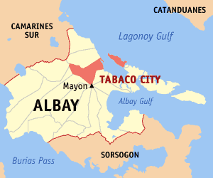 Locator map of Tabaco in Albay, Philippines.